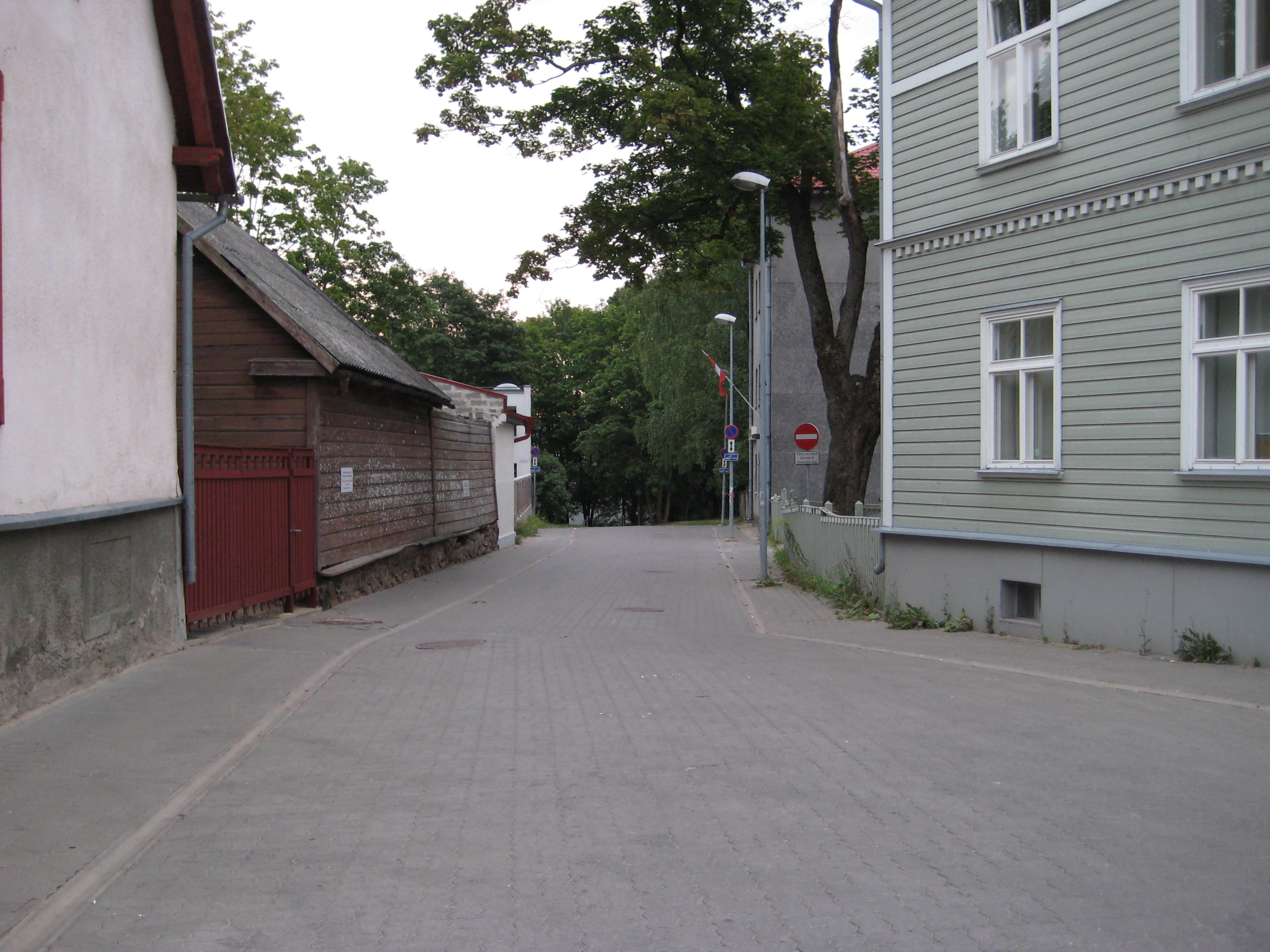 Kitsas street in Tartu